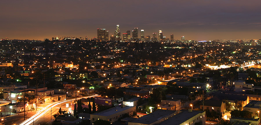 Los Angeles at night, skyline